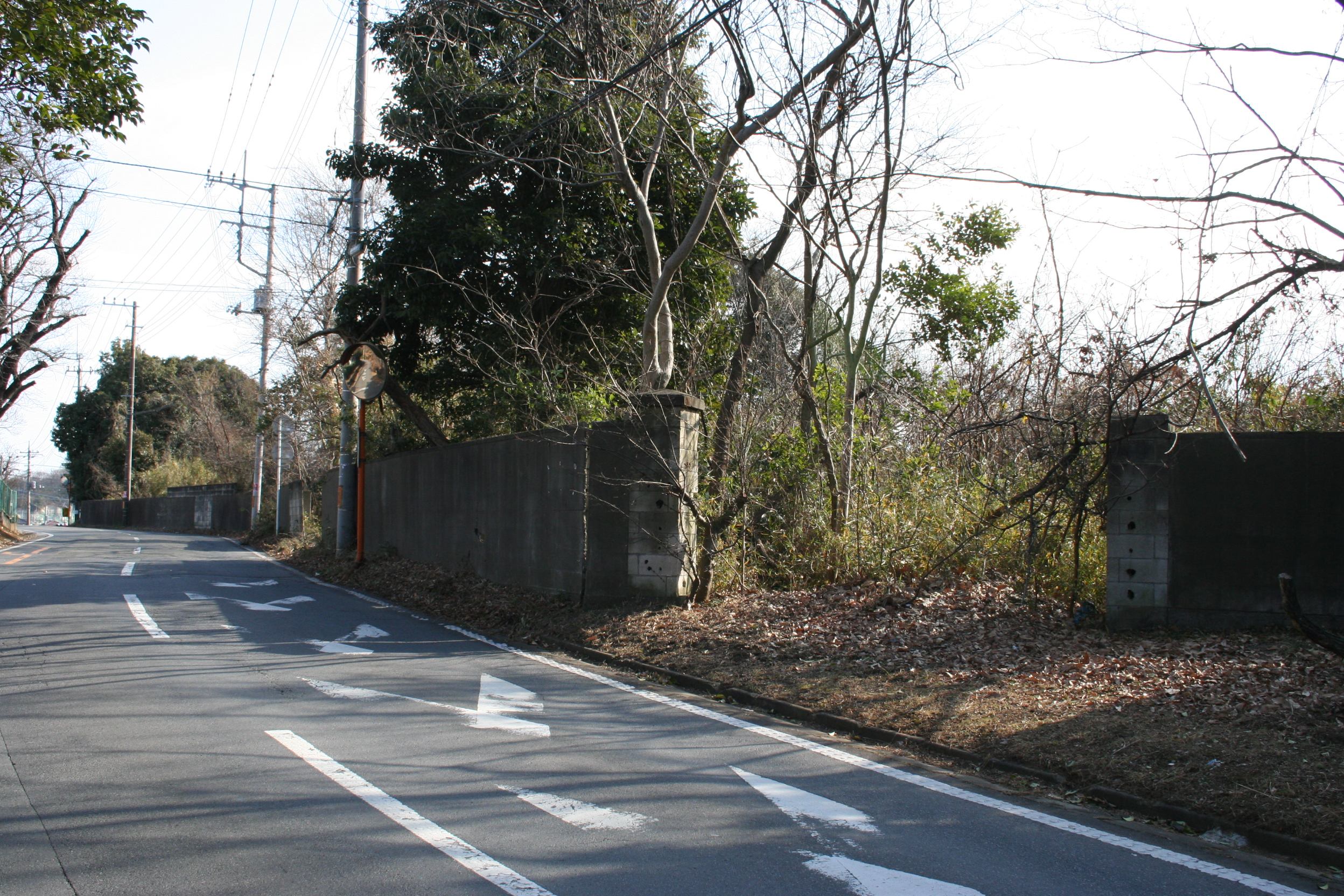 A vacant lot of Higashimatsuyama Amusement Park, Higashimatsuyama-shi, Saitama, Japan